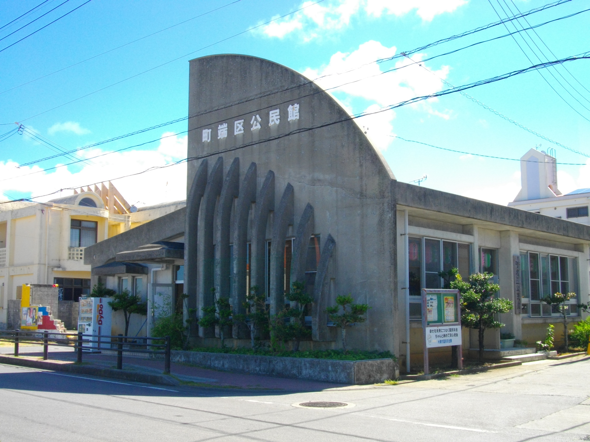 Itoman Machibata-ku Community Center